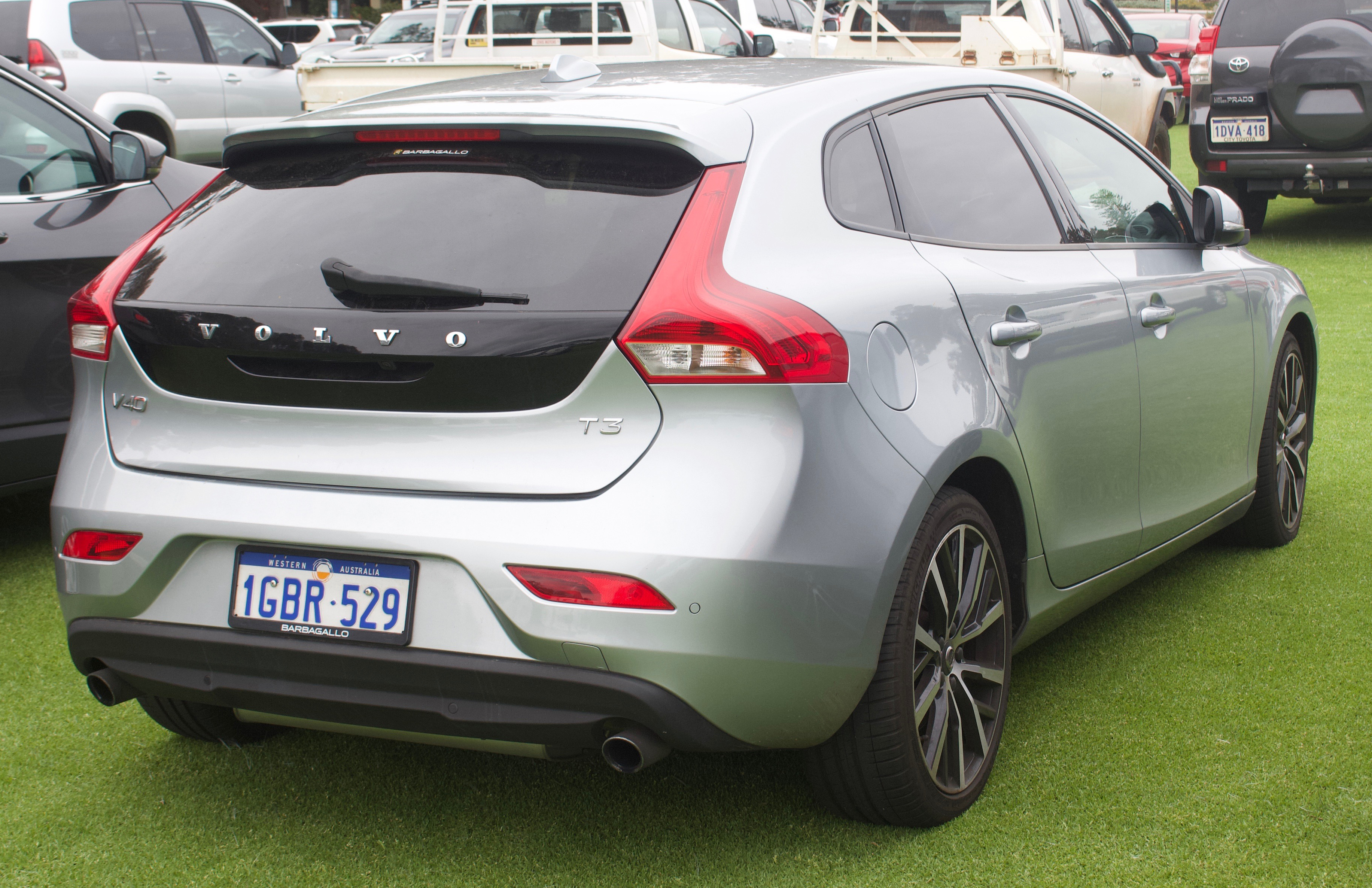 2016 Volvo V40 (MY17) T3 Momentum hatchback. Photographed in Swanbourne, Western Australia, Australia.